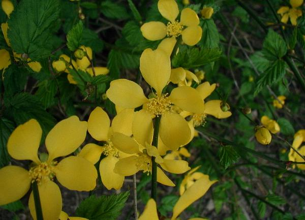 Kerria japonica: Flowers and leaves.